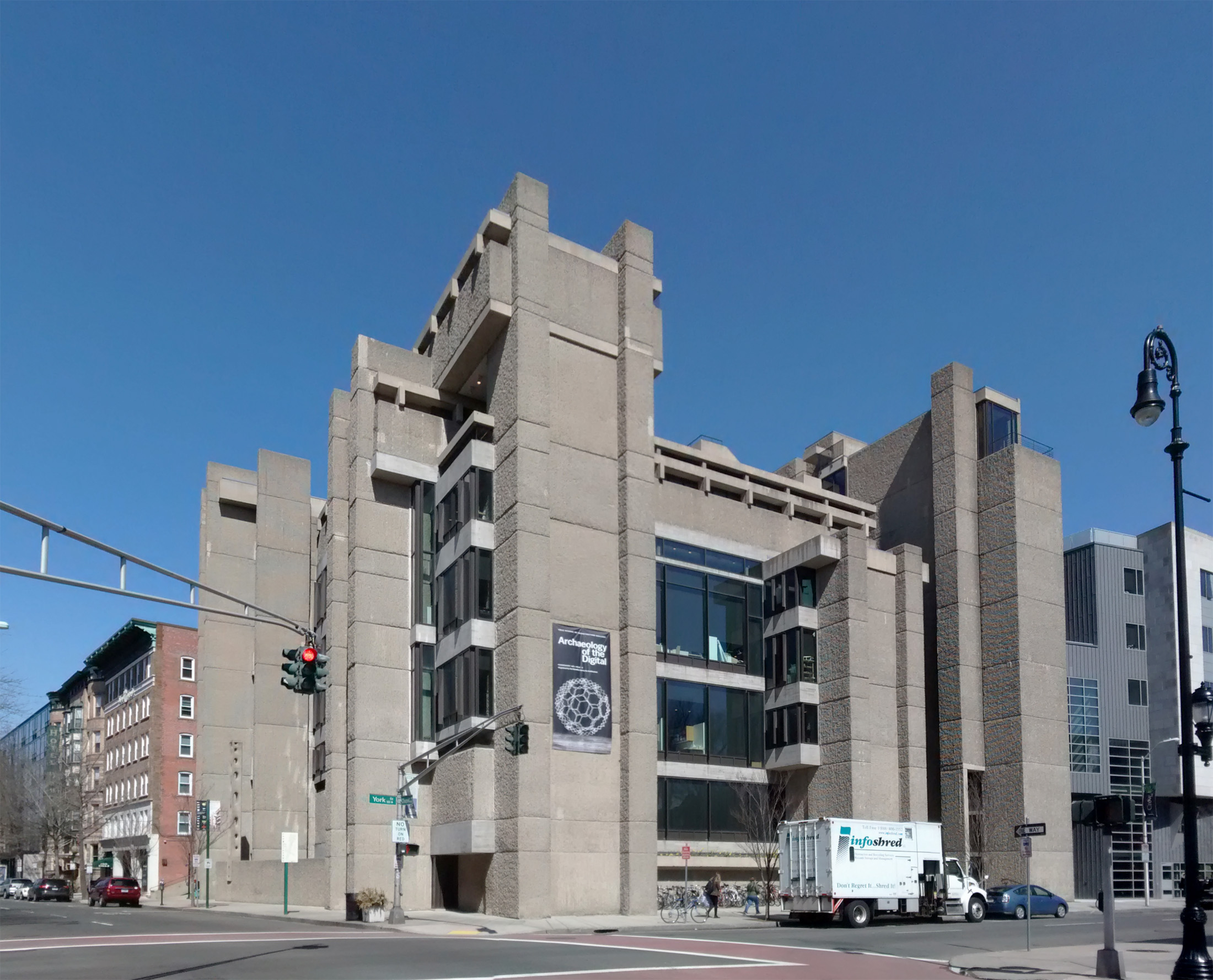 Yale Art and Architecture Building, Rudolph Hall, Paul Rudolph, New Haven, Connecticut, Apr. 2014